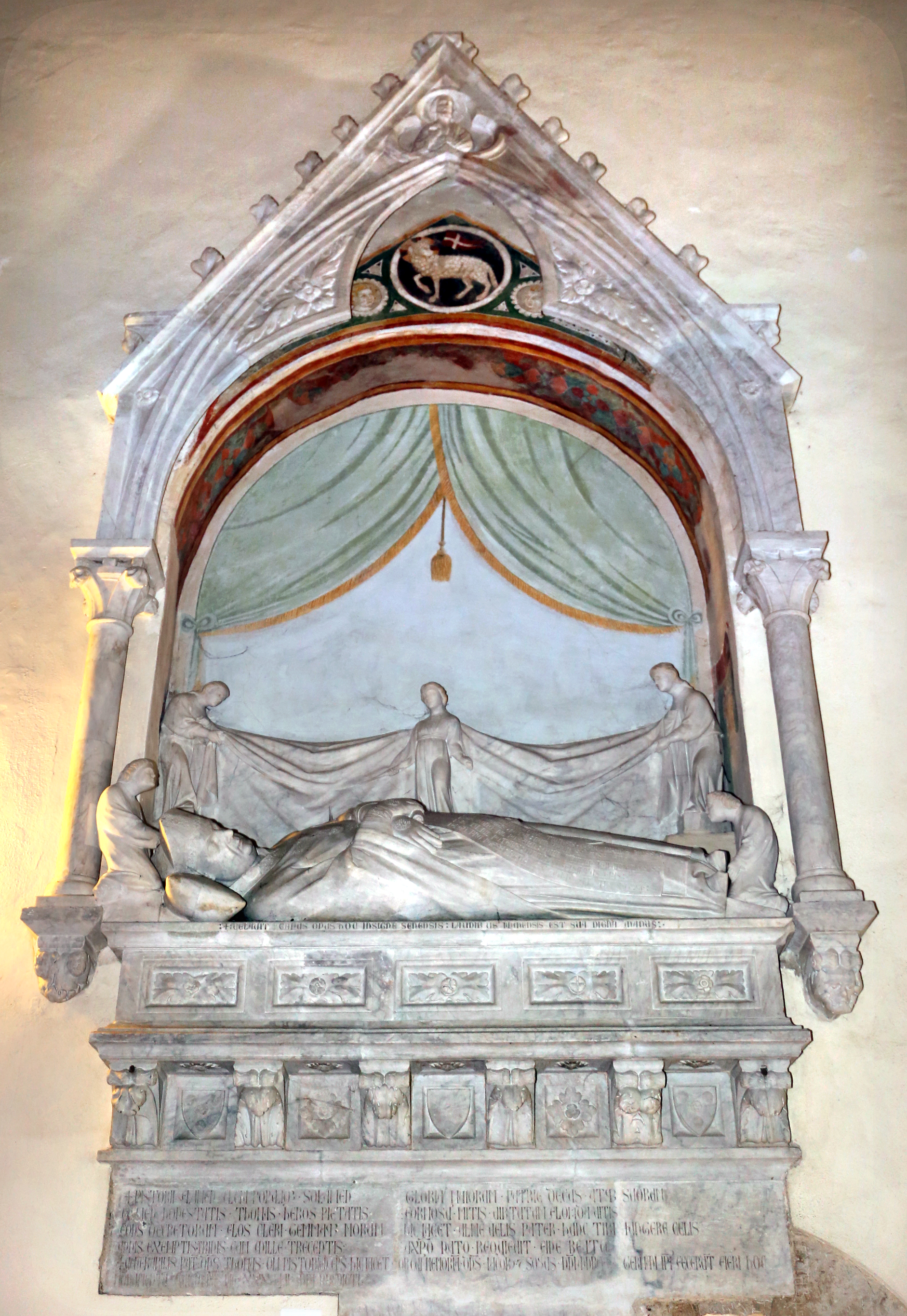 Santa Maria Assunta a Casole d'Elsa